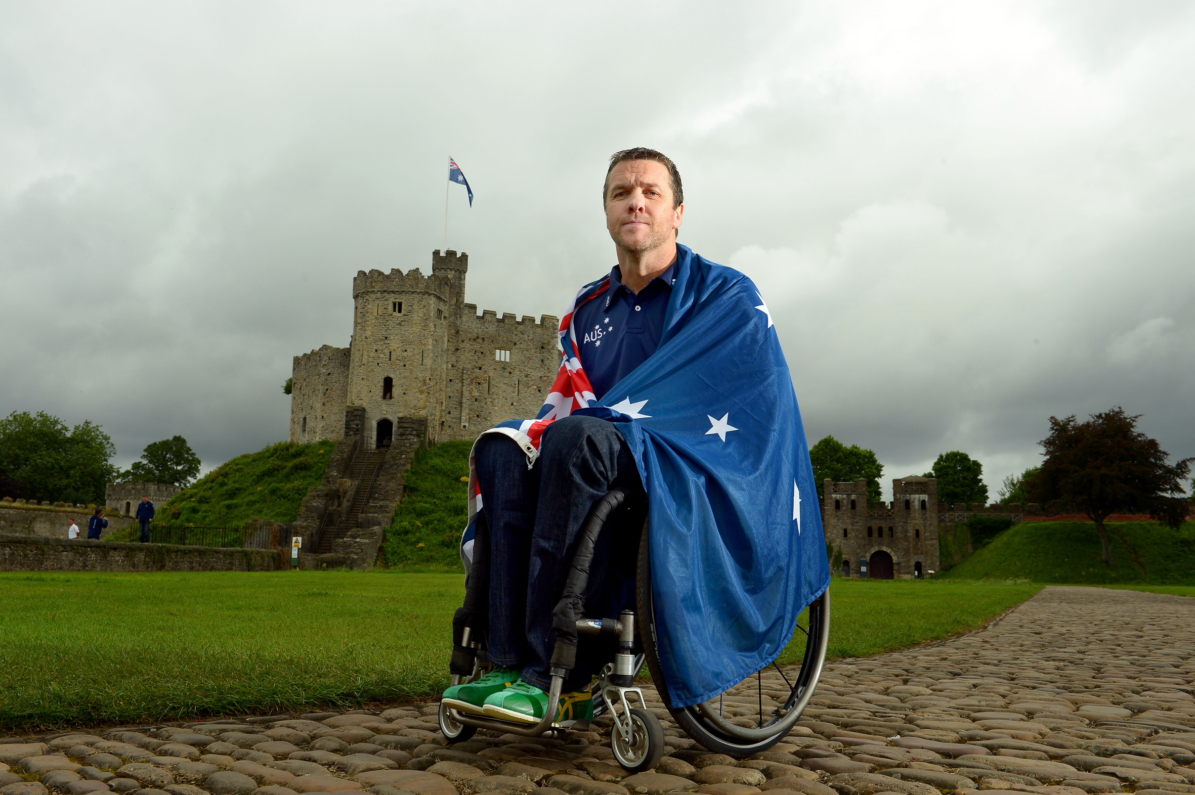 Australian wheelchair rugby star Greg Smith, Flag Bearer for the 2012 Australian Paralympic Team at the London 2012 Paralympic Games, wraps himself in the Australian flag. Solo photo shot in front of Cardiff Castle, Wales.